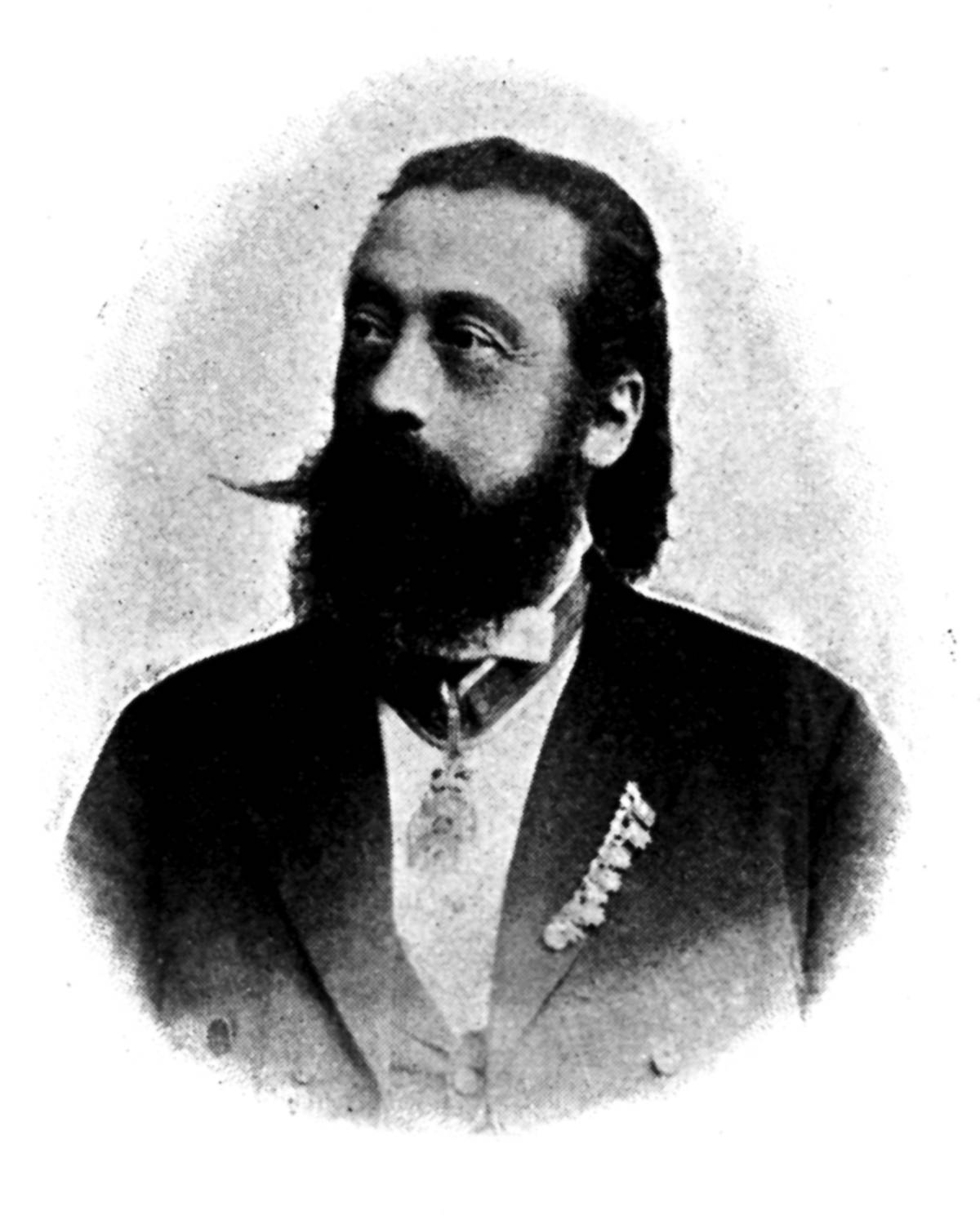 Enoch Heinrich Kisch